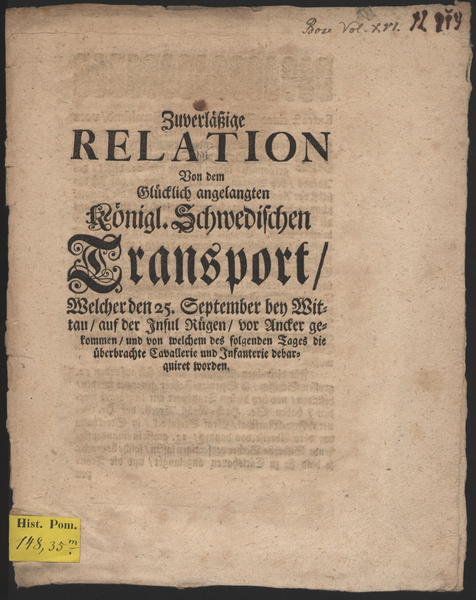 German-speaking report about the successful debarquement of Swedish relief troops, obviously adressed to the besieged Swedish city of Stralsund